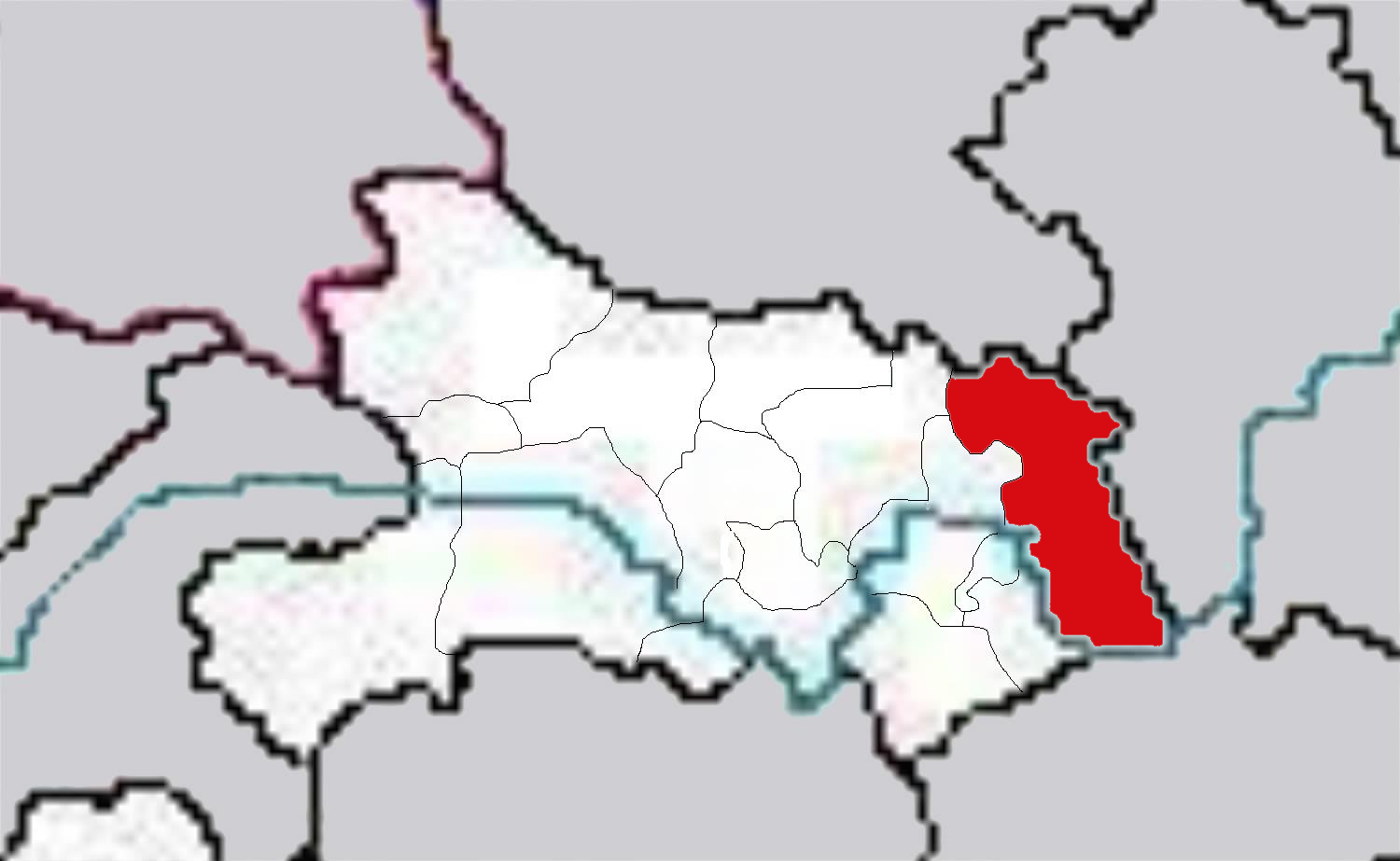 Maps of Hubei Province of China